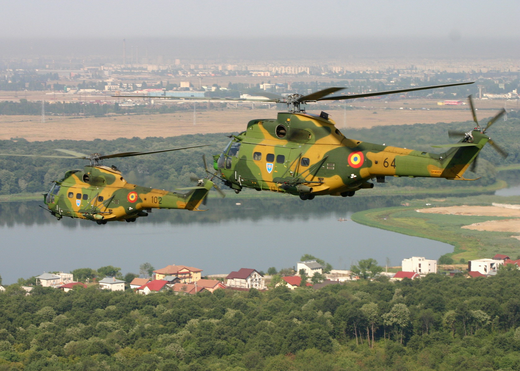 IAR 330 SOCAT helicopters flying over Bucharest during the NATO Summit Preparations.